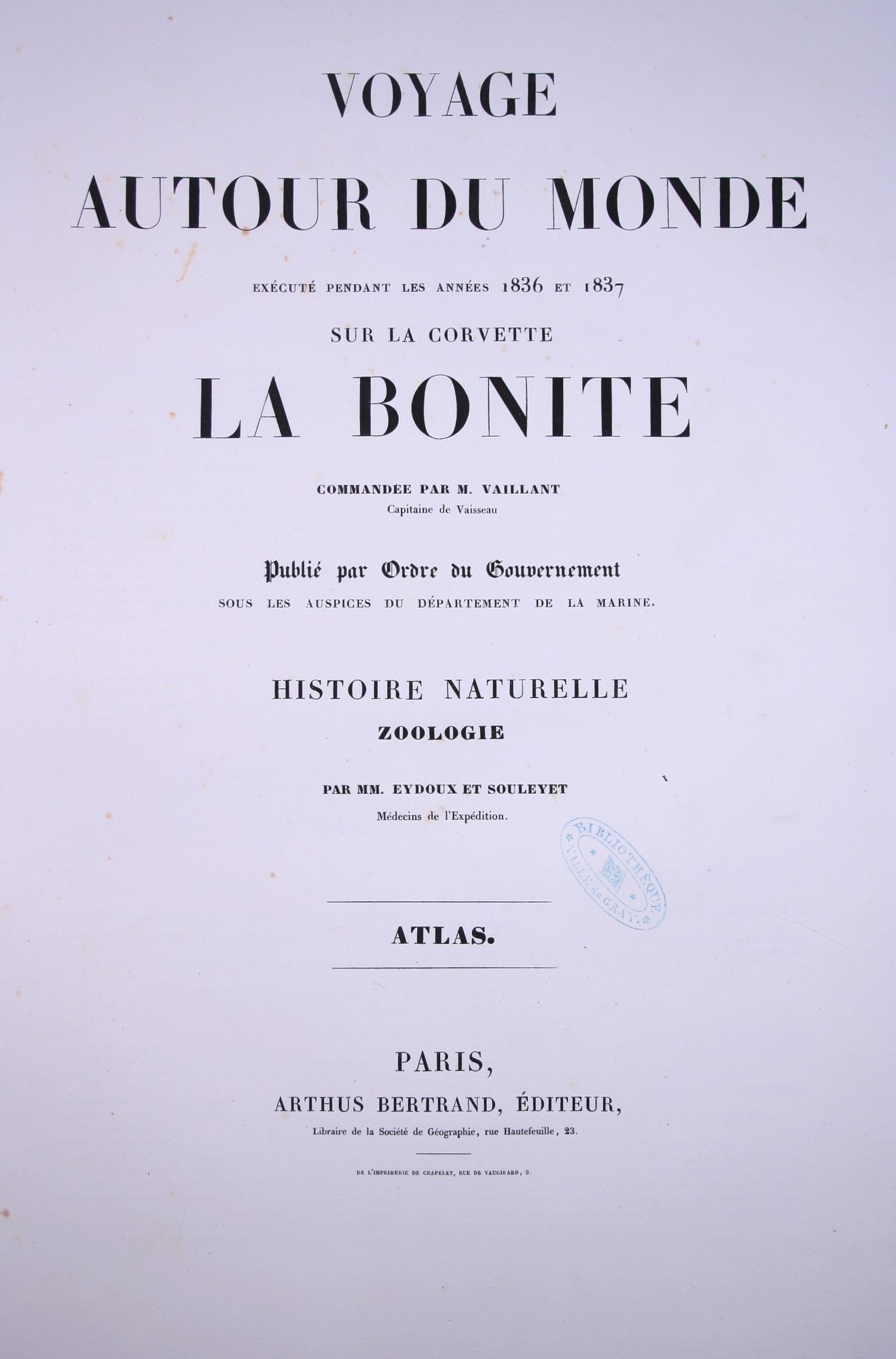 Zoology (molluscs)